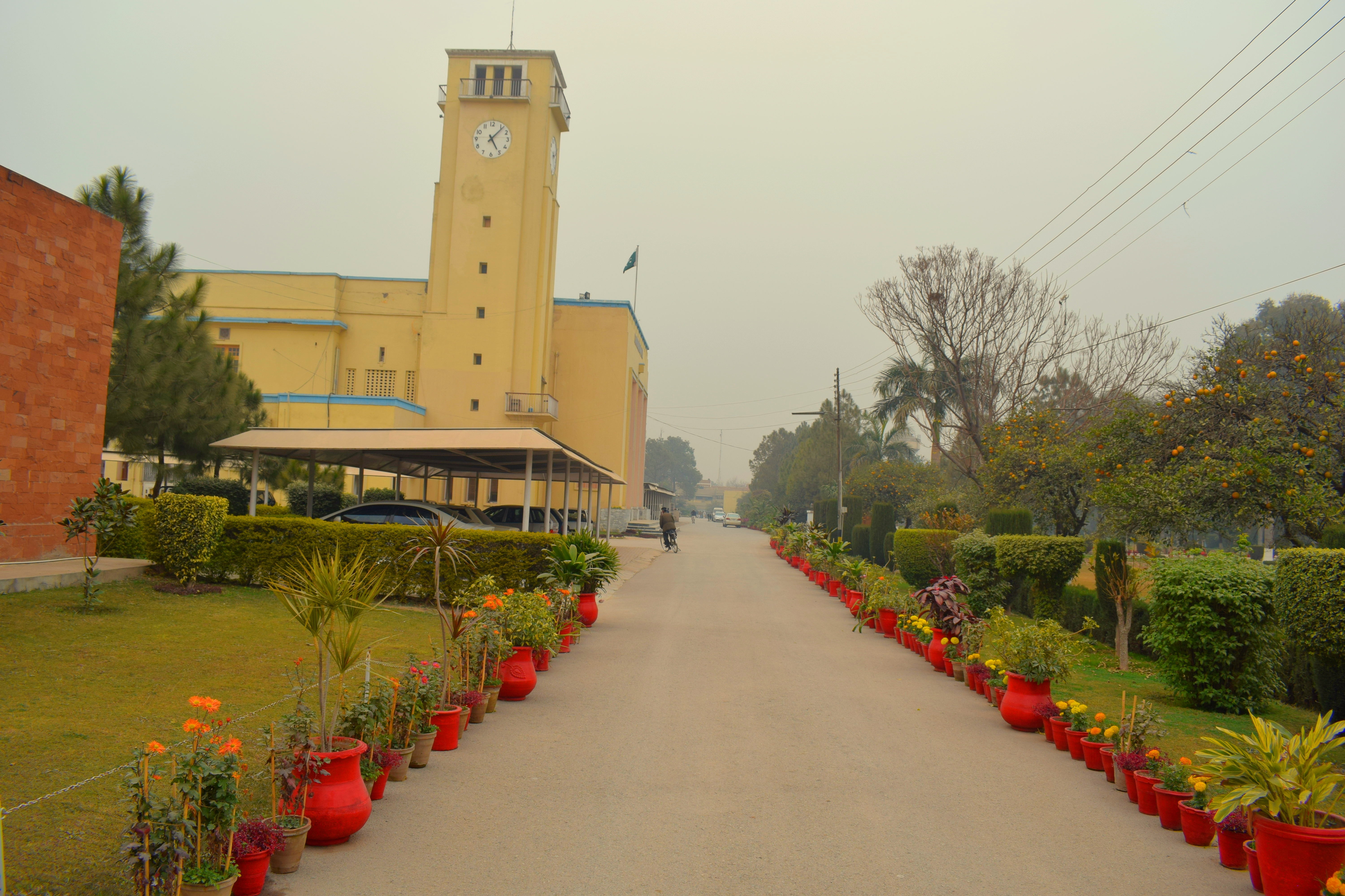 I captured this Beautiful view of Peshawar Uni museum.